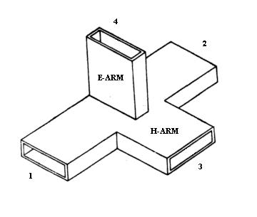 Magic Tee, a four-port, hybrid splitter used in radio frequency (RF) systems.